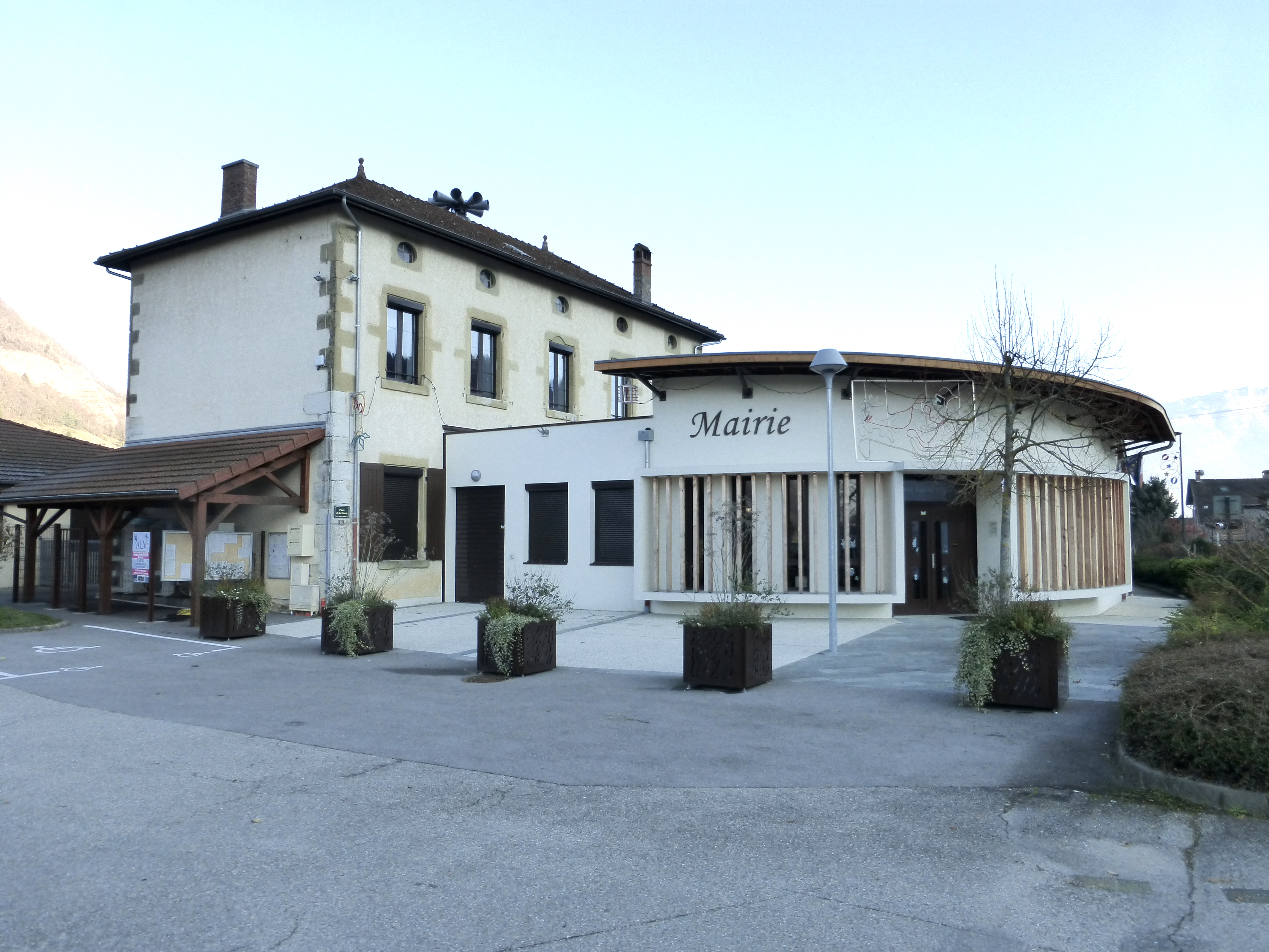 Town Hall Saint-Nicolas-de-Macherin, Isère, France December 2016